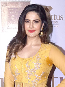 Zareen Khan graces the trailer launch of short film Udne Do